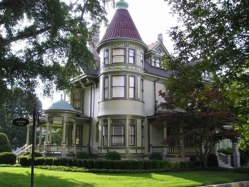 The Gwaltney House on South Church Street in Smithfield, Virginia.